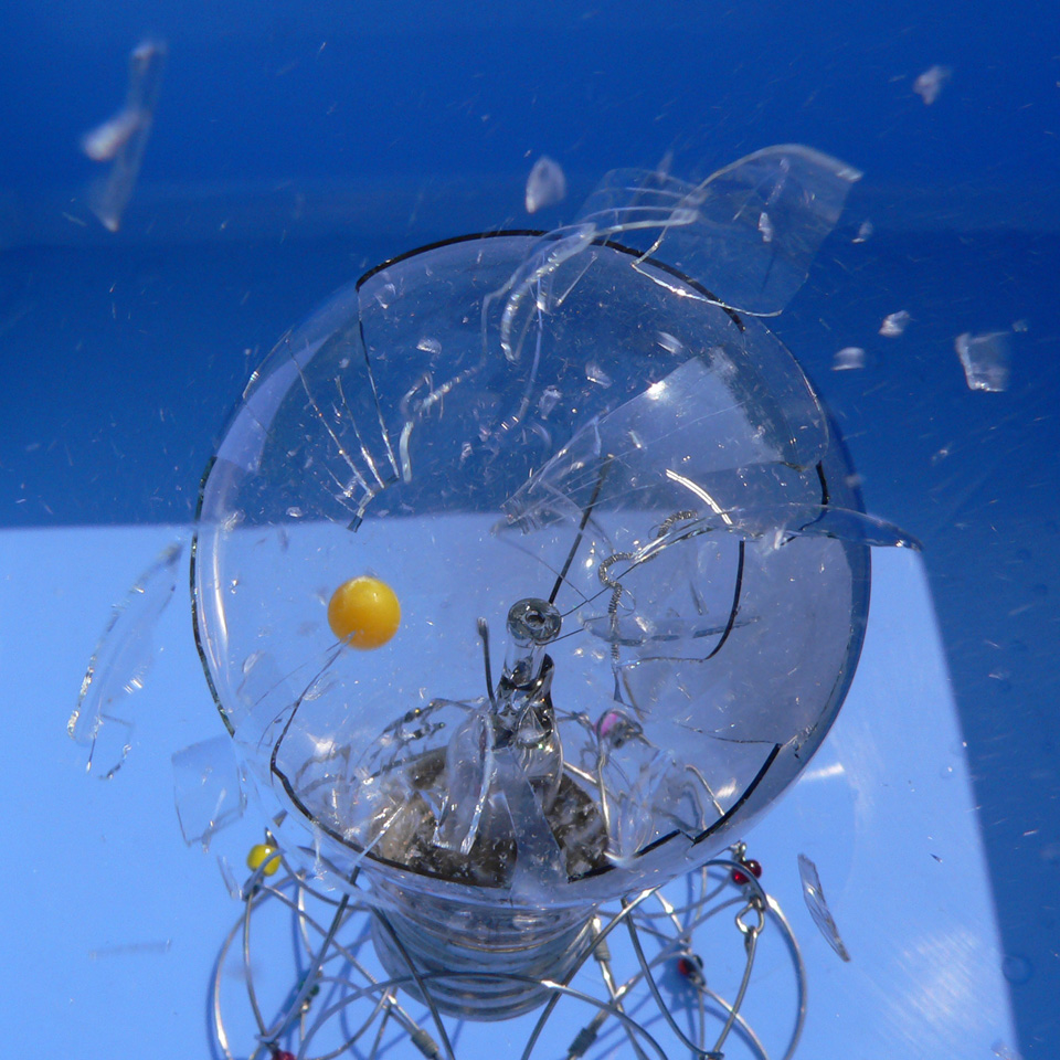 I wanted to try to add a radial blur effect with photoshop, but I prefer photos in their original version, at most cropped or with a little color levels correction.